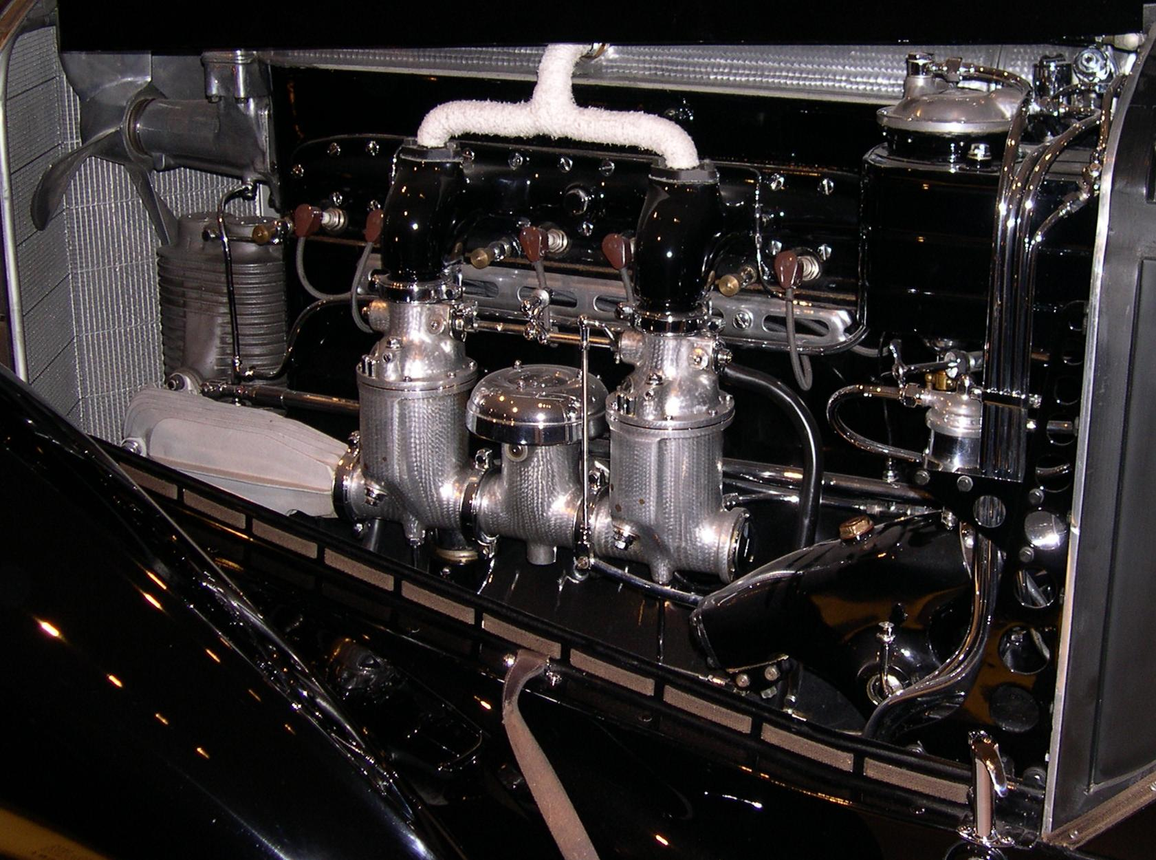 1930 Mercedes-Benz SSK "Count Trossi" From the Ralph Lauren collection on display at the Boston Museum of Fine Arts. Photo taken in 2005.